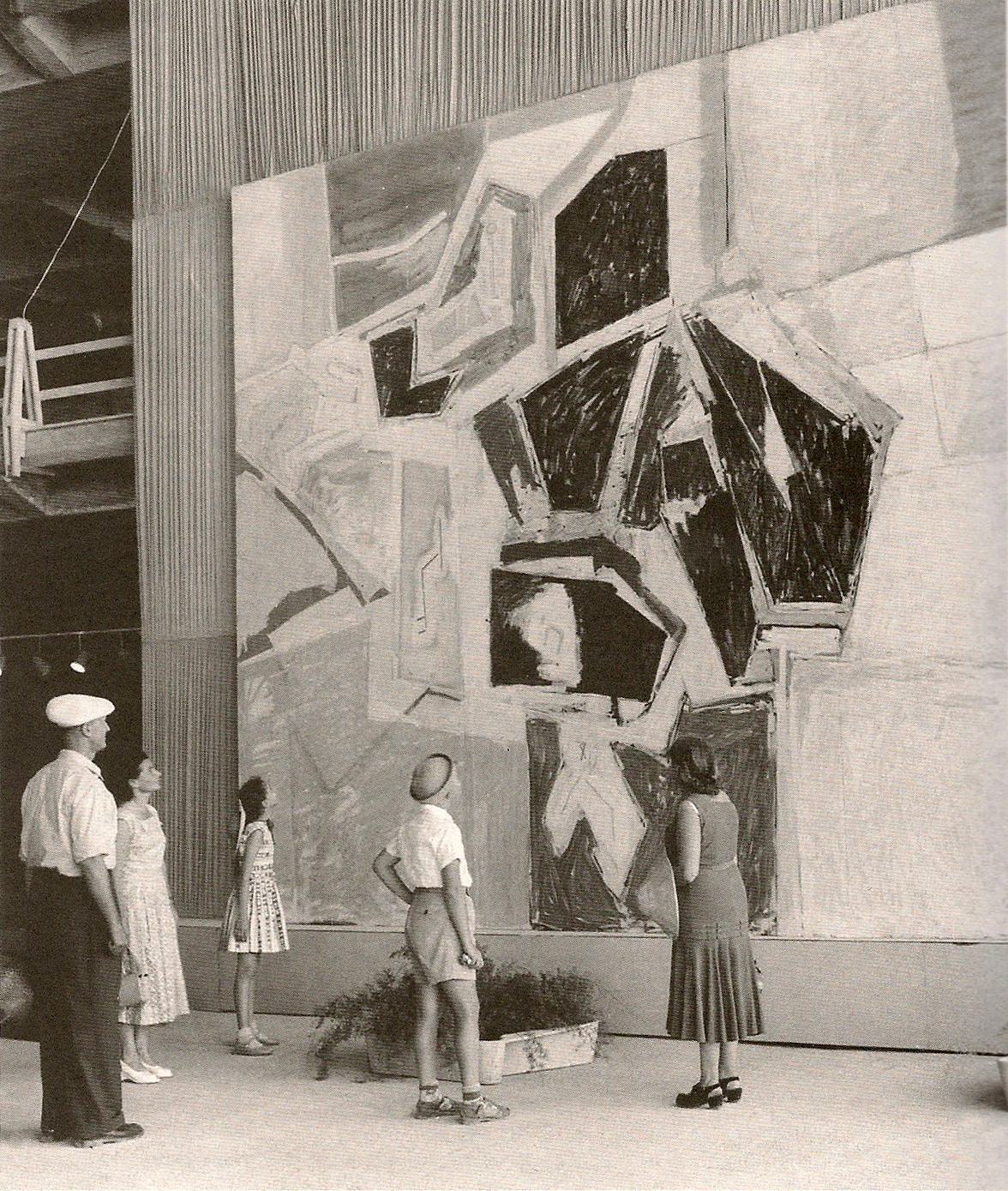 Werner Braun, Might (1958) by Yosef Zaritsky at "the First Daecade Exhibition"' 1958.